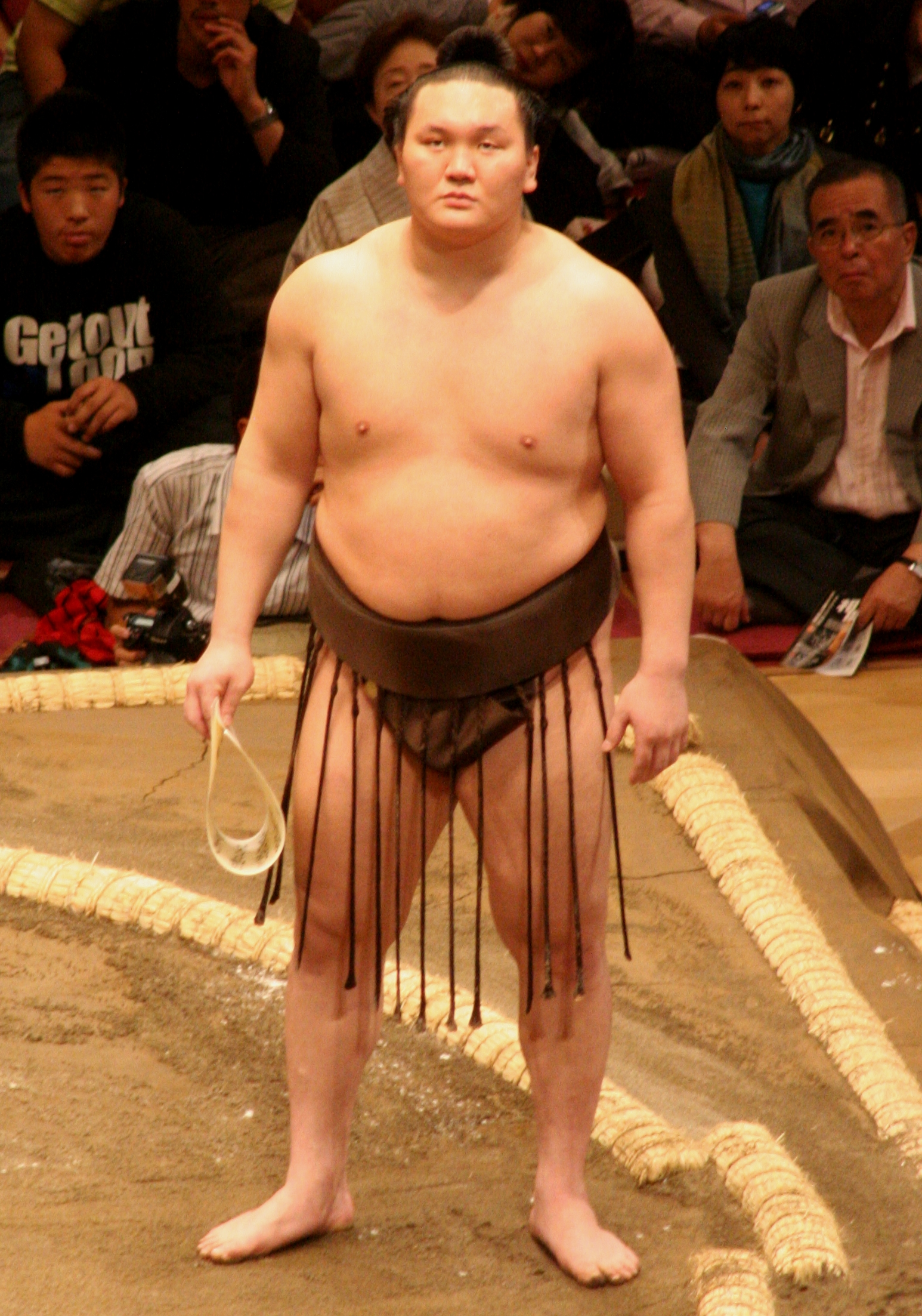 First day of 2009 May Sumo Tournament in Tokyo, Japan - Hakuho